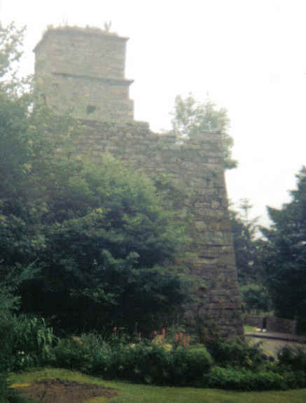 Craleckan Furnace.